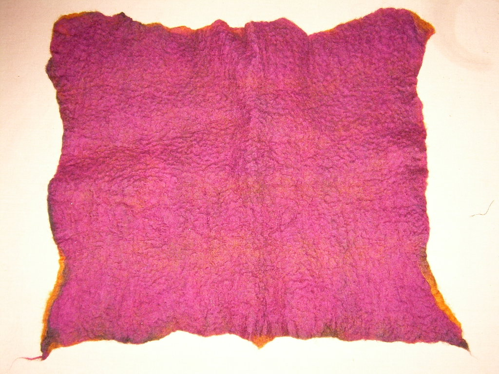 A piece of homemade felted cloth